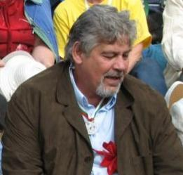 Georgi Parvanov and Stefan Danailov, Rozhen folklore festival 2006